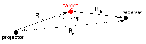 Bistatic forwardscattering